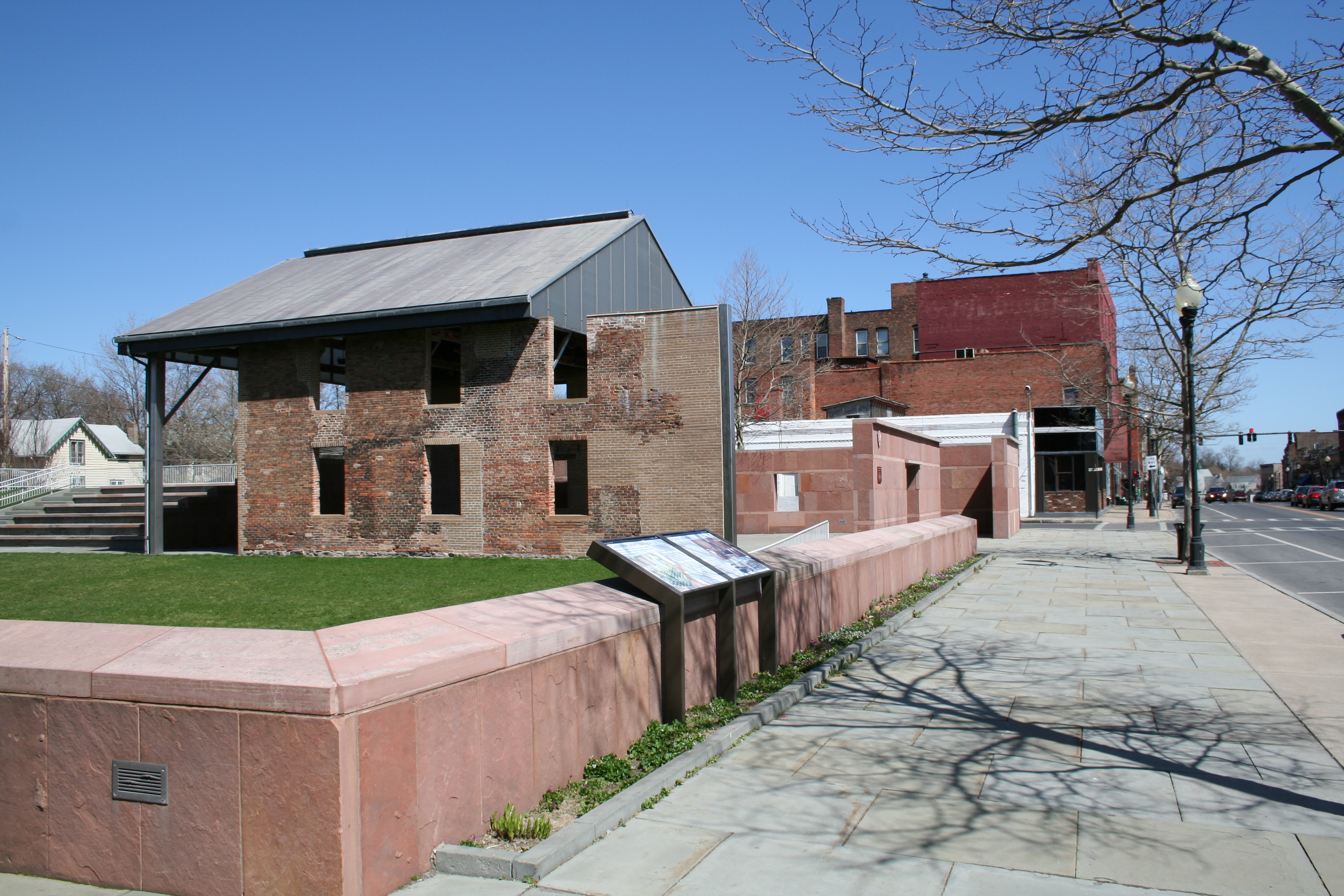 Wesleyan Chapel, part of the Women's Rights National Historic Site in Seneca Falls, New York. Authored by National Park Service; this is an official image from the NPS.